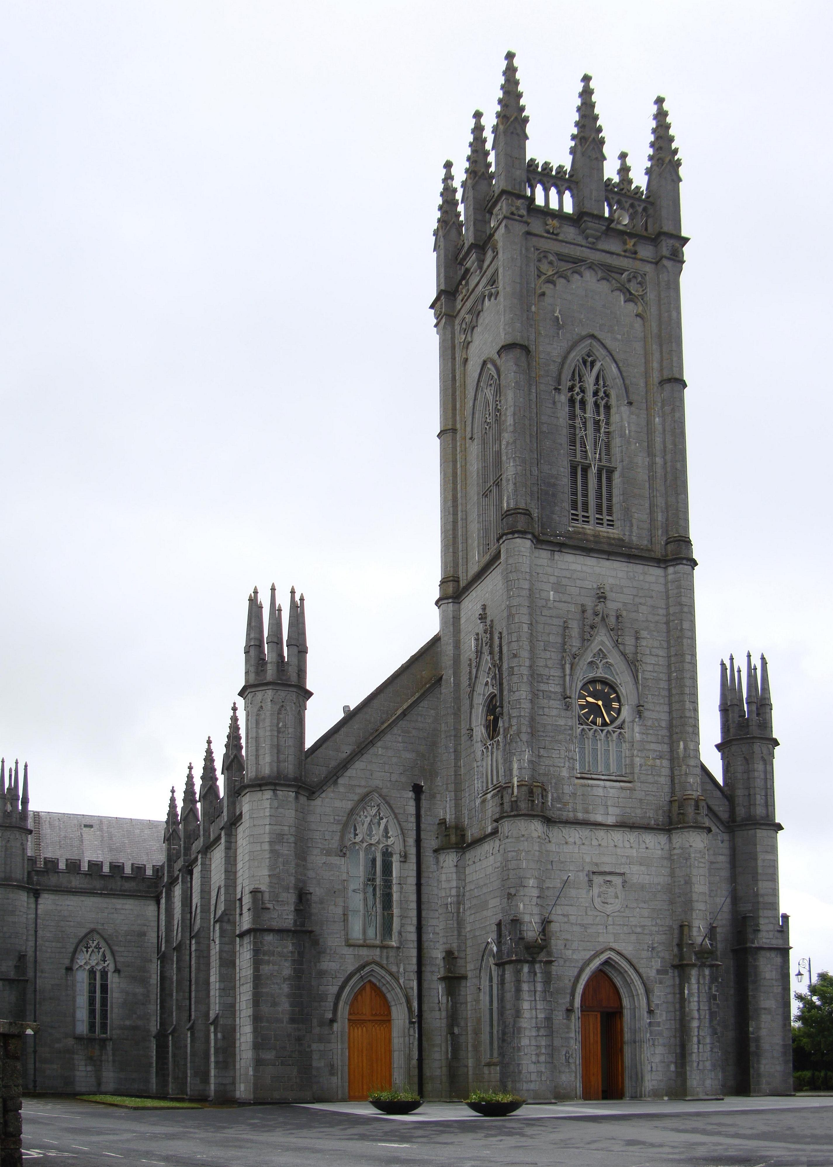 Photograph of Tuam R.C. Cathedral, Co. Galway, Ireland